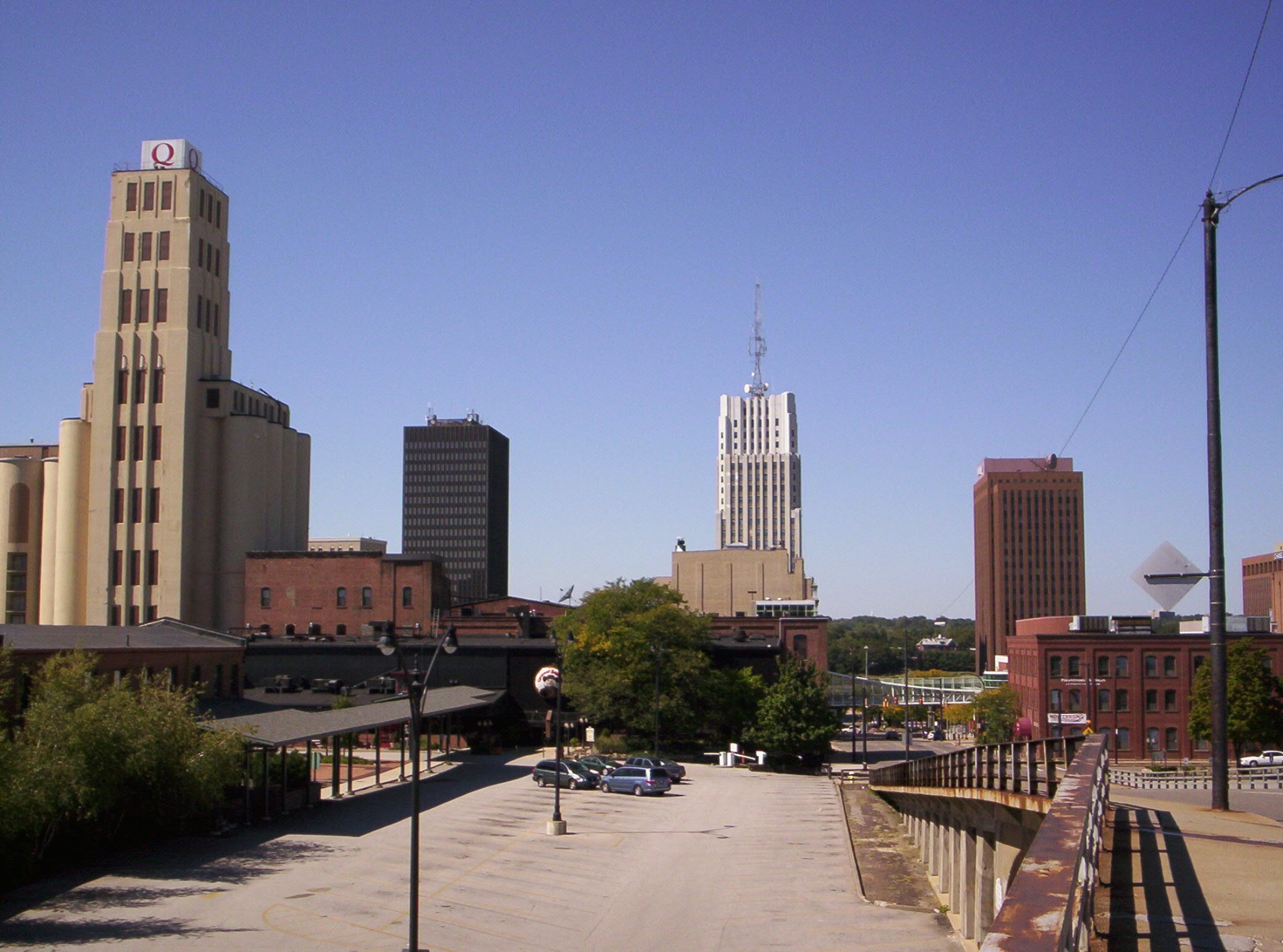 This photograph of downtown Akron, Ohio looking south was taken by User OHWiki.